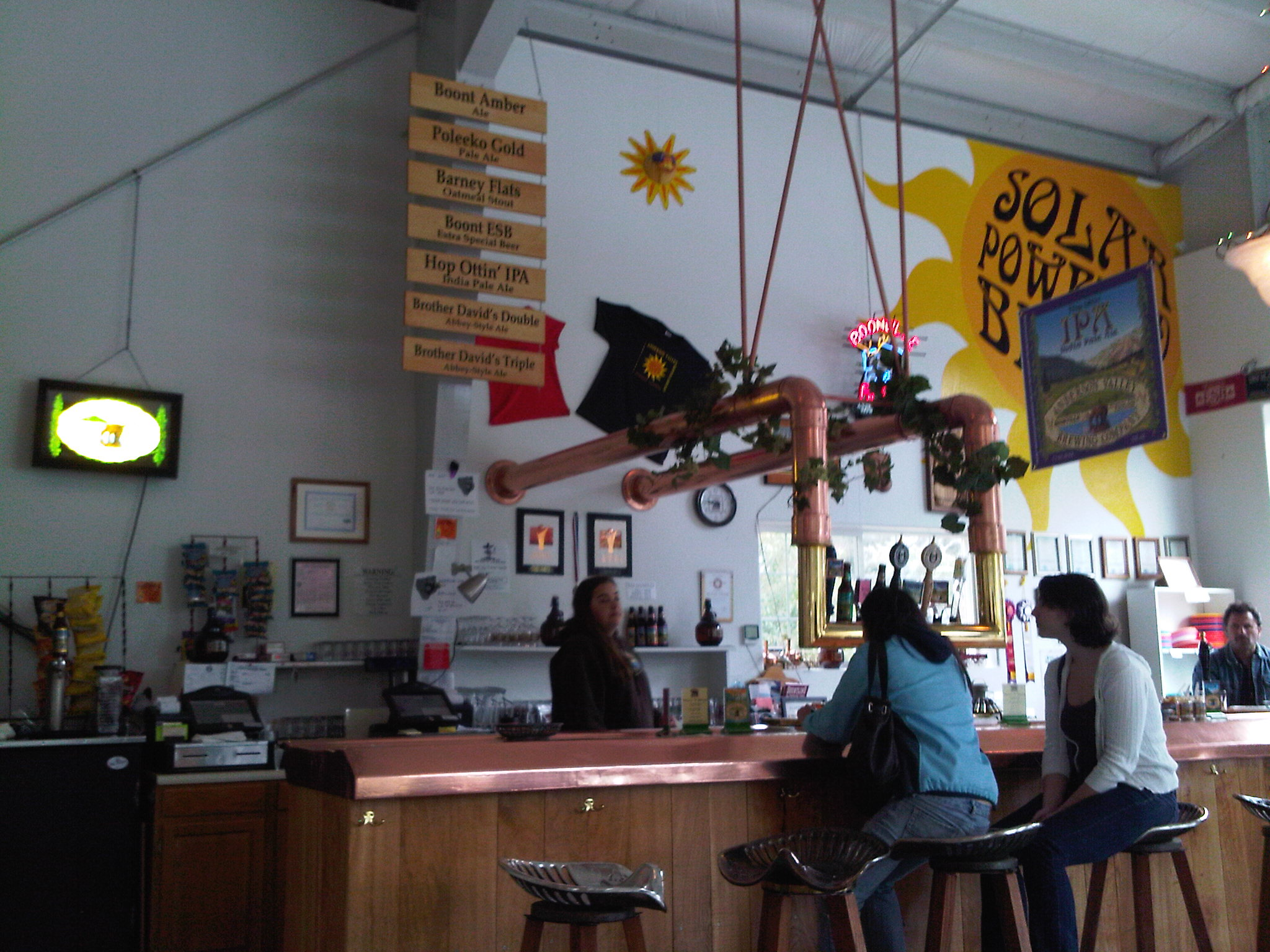 Inside Anderson Valley Brewing Company